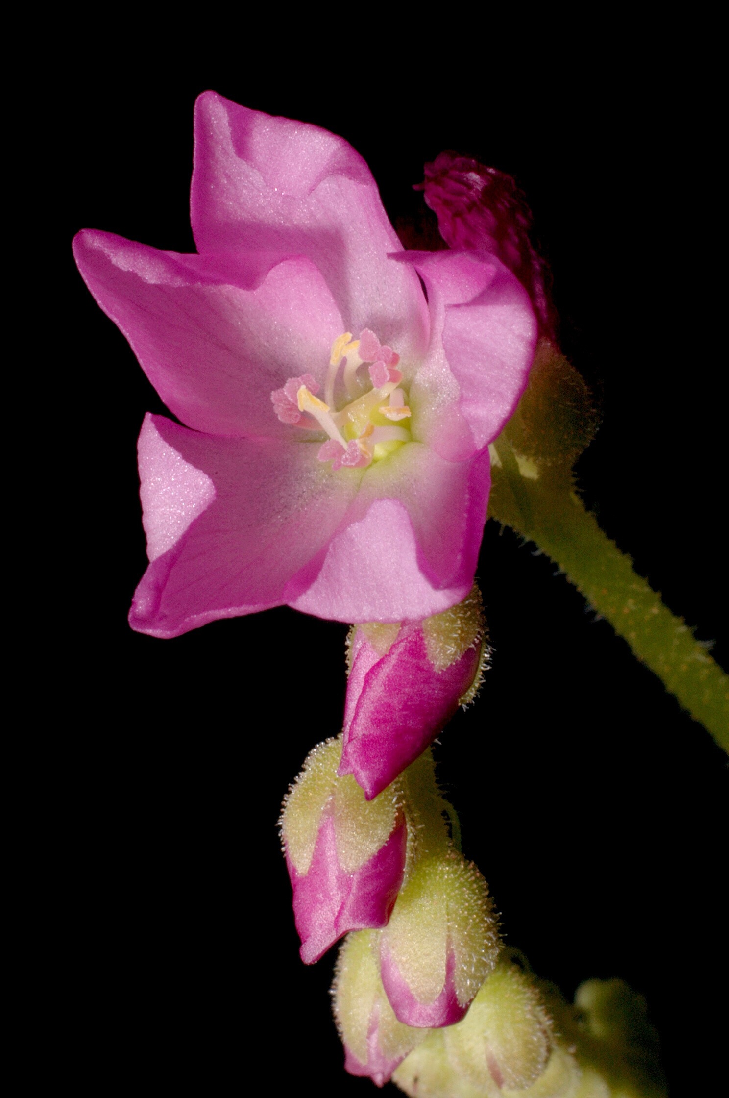 Drosera capensis